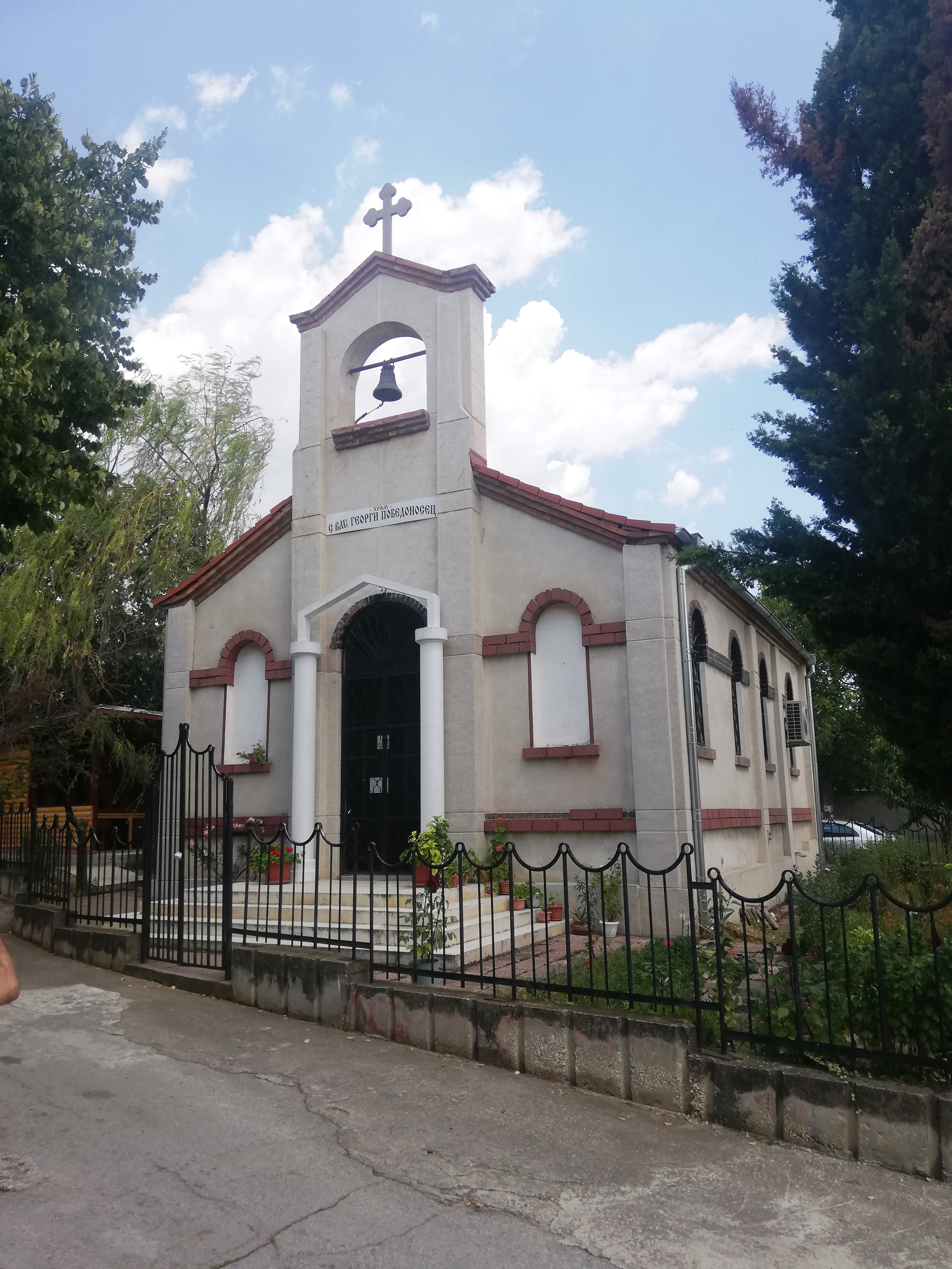 A church in Ezerovo, Varna Province